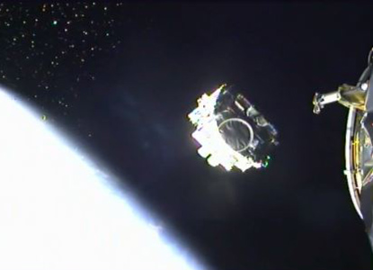 SpaceX's Falcon 9 rocket delivered the ABS 3A and EUTELSAT 115 West B satellites to a supersynchronous transfer orbit, launching from Space Launch Complex 40 at Cape Canaveral Air Force Station, Florida on Sunday, March 1, 2015 at 10:50pm ET.